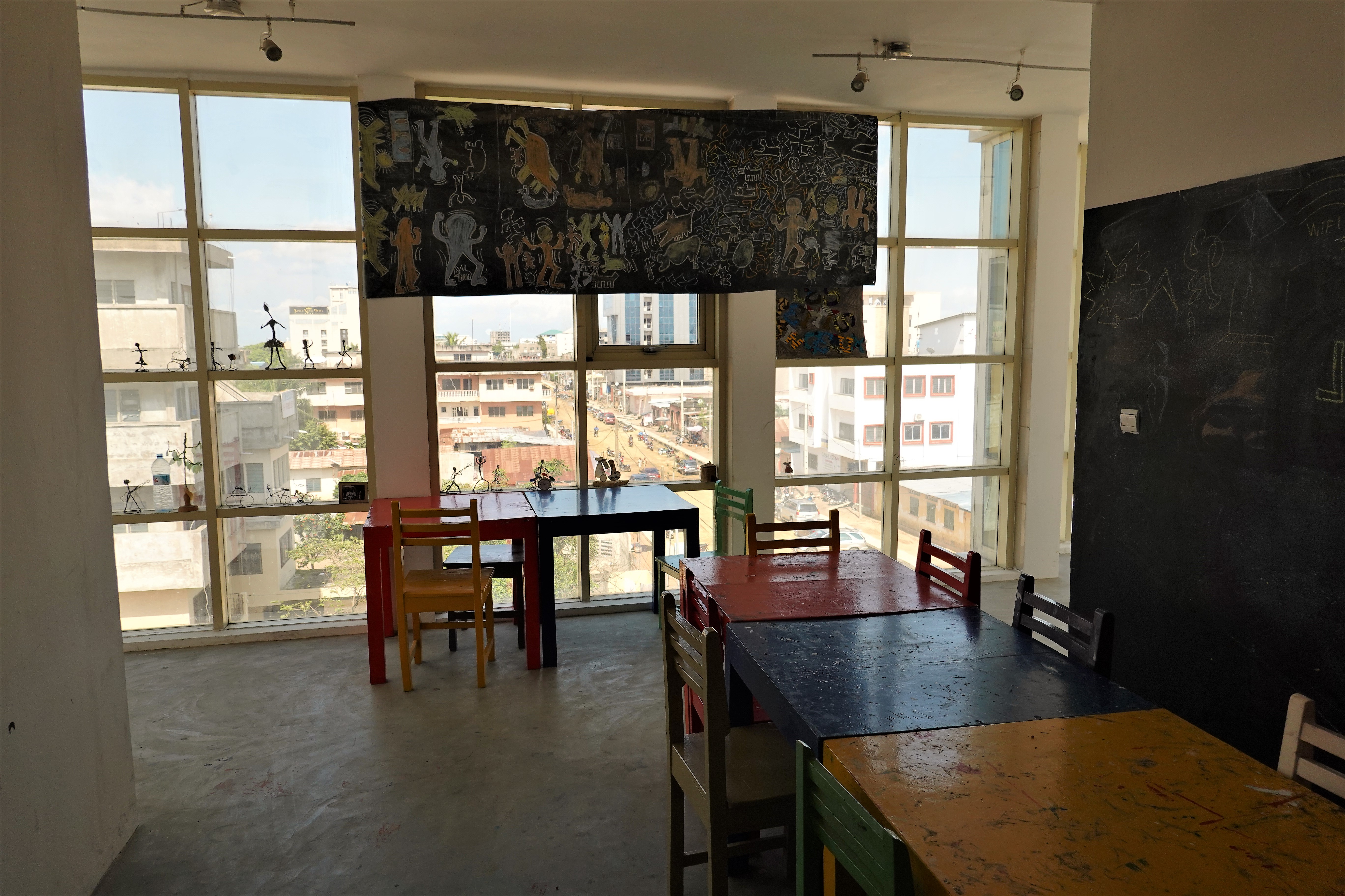 art class furniture windows street view down